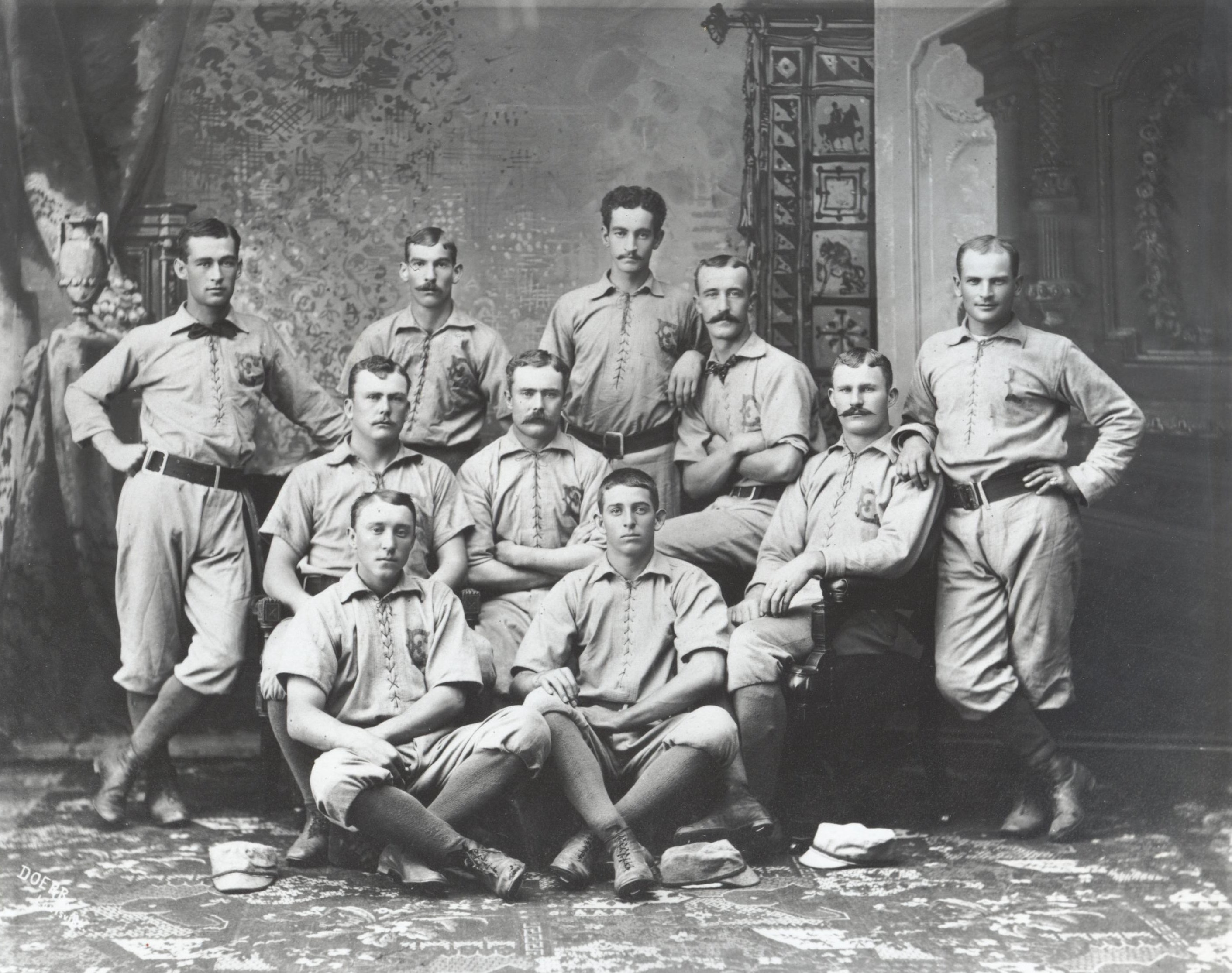 1882 Louisville Eclipse baseball teamBack row, L-R: Leech Maskrey, Pete Browning, Tony Mullane, Bill Schenck, Charles StrickMiddle row, L-R: Dan Sullivan, Denny Mack, Guy HeckerFront row, L-R: John Reccius, Jimmy Wolf